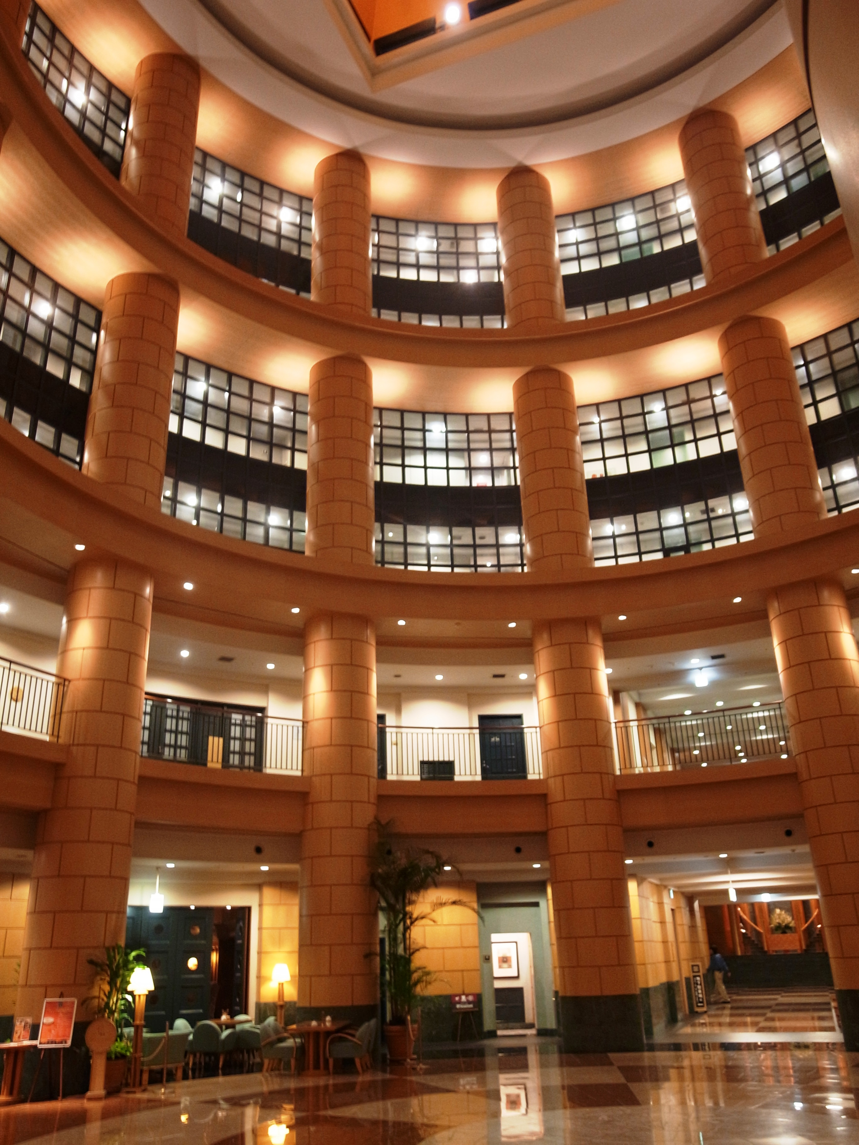 Hyatt Regency Fukuoka